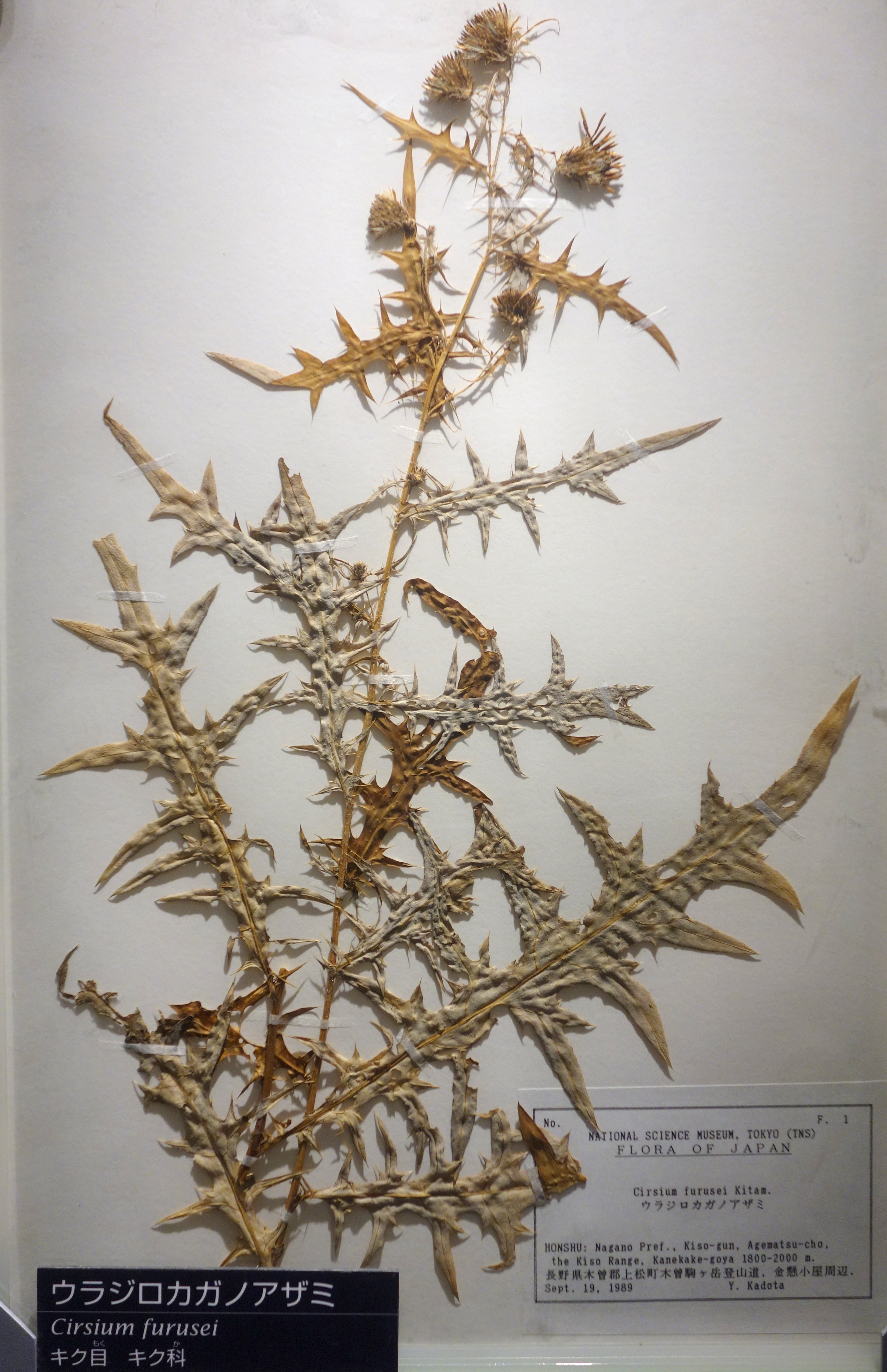 Exhibit in the National Museum of Nature and Science, Tokyo, Japan.